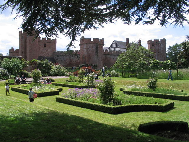 Open garden day, 2008 On one day a year the private gardens and some of the interior of Maxstoke Castle are opened to the public for the benefit of charities under the National Gardens Scheme.